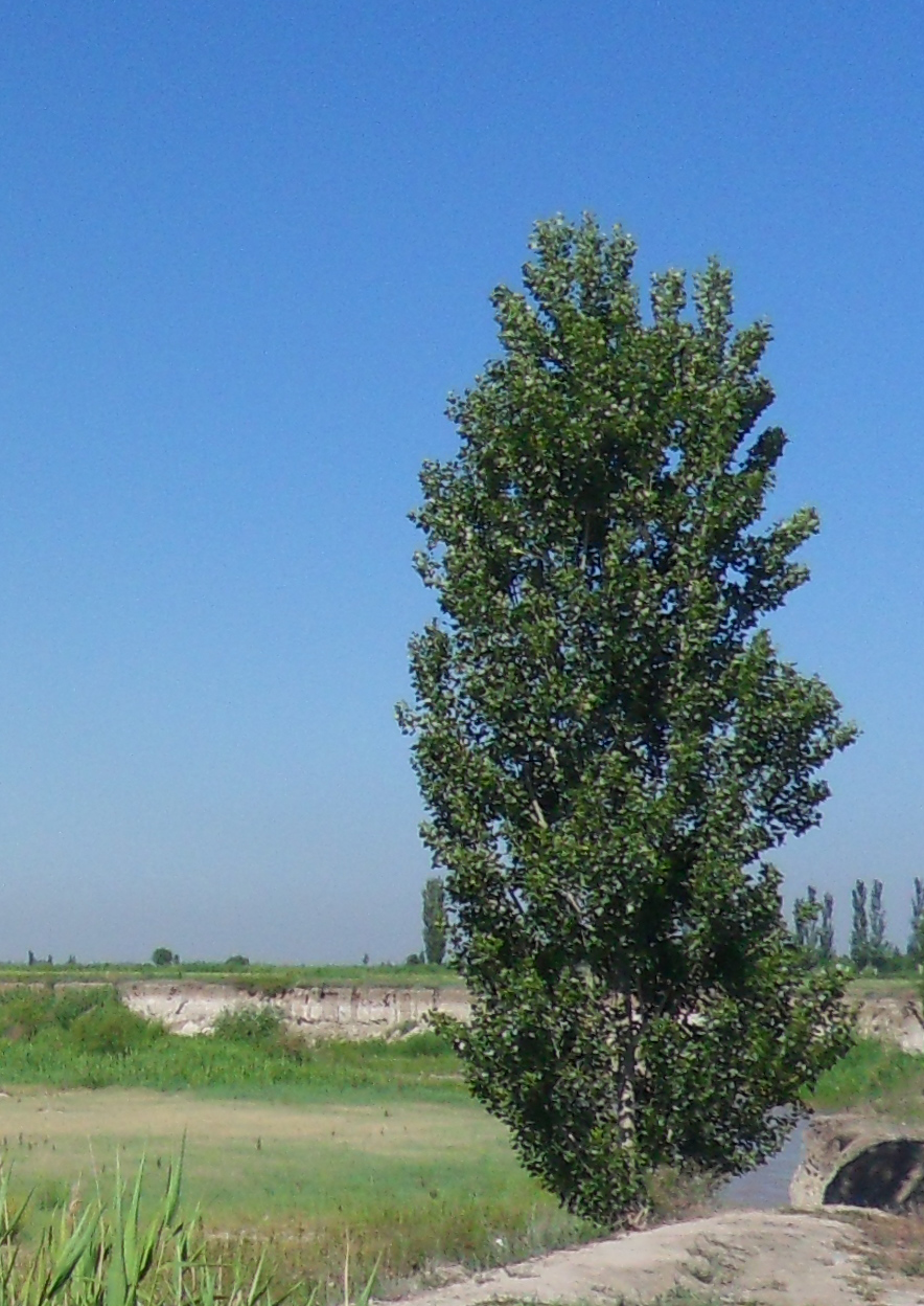 Populus abla 'Pyramidalis' in native range